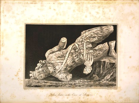 Hand aquatint from the "A journey from India to England, through Persia, Georgia, Russia, Poland, and Prussia, in the year 1817" by Lieut. Col. John Johnson (1768 — 1846). Engraved by Theodore Henry Adolphus Fielding (1781 – 1851). The colossal 7m high statue of the Sasanian ruler Shapur I (c. 240-270 A.D.) in the Shapur Cave, carved from a single stalagmite, and repaired by the Iranian military.